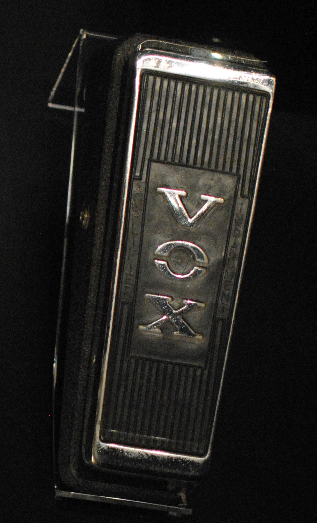 David Gilmour's VOX Wah Wah guitar effects pedal, as used on 'Obscured by Clouds' (1971), displayed at the Pink Floyd: Their Mortal Remains exhibition at the Victoria and Albert Museum.